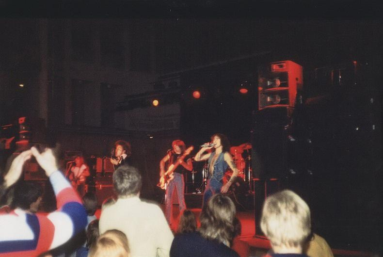 AC/DC with Bon Scott.